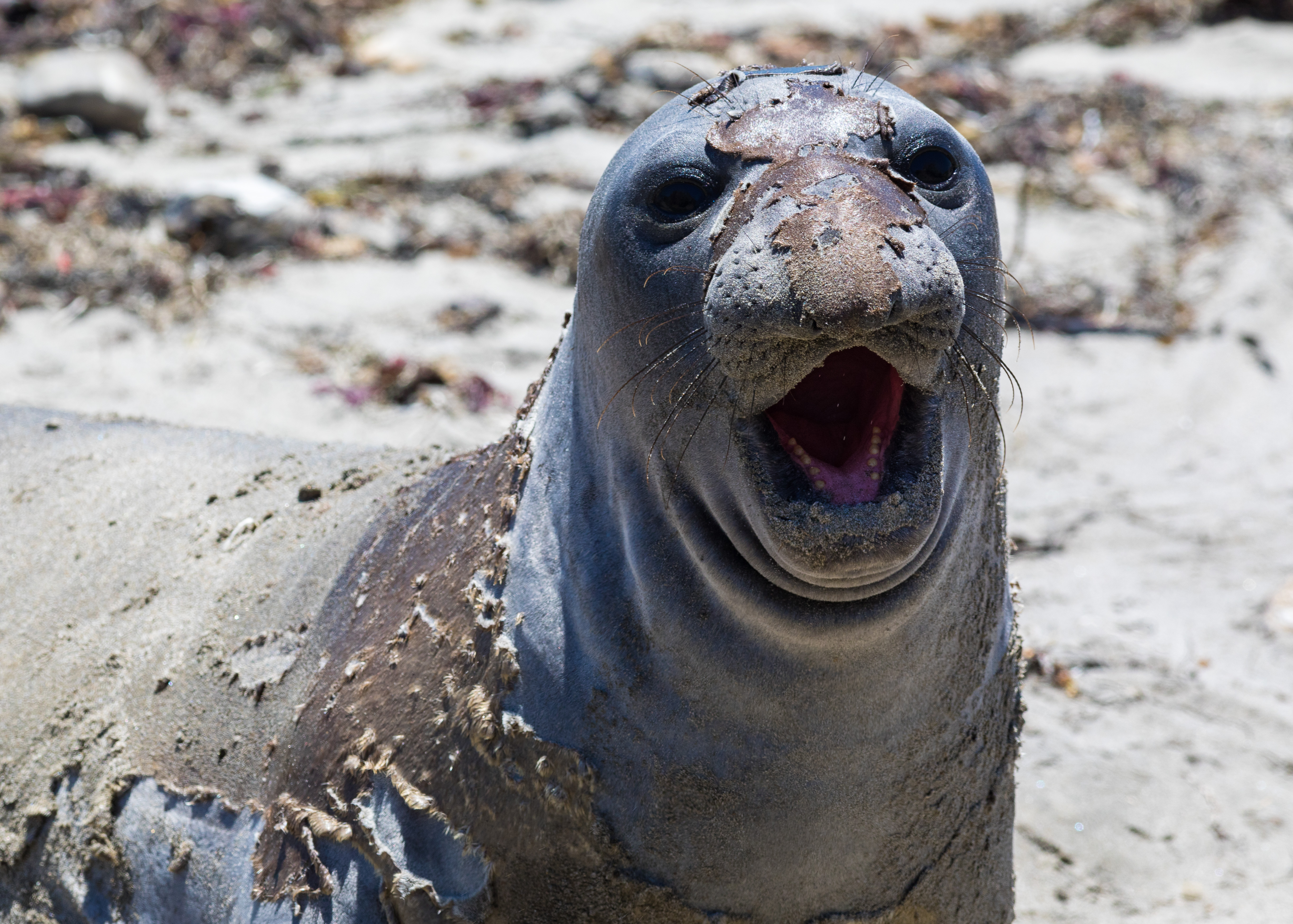 Juvenile northern elephant seal (Mirounga angustirostris) during molt, Año Nuevo State Park, California